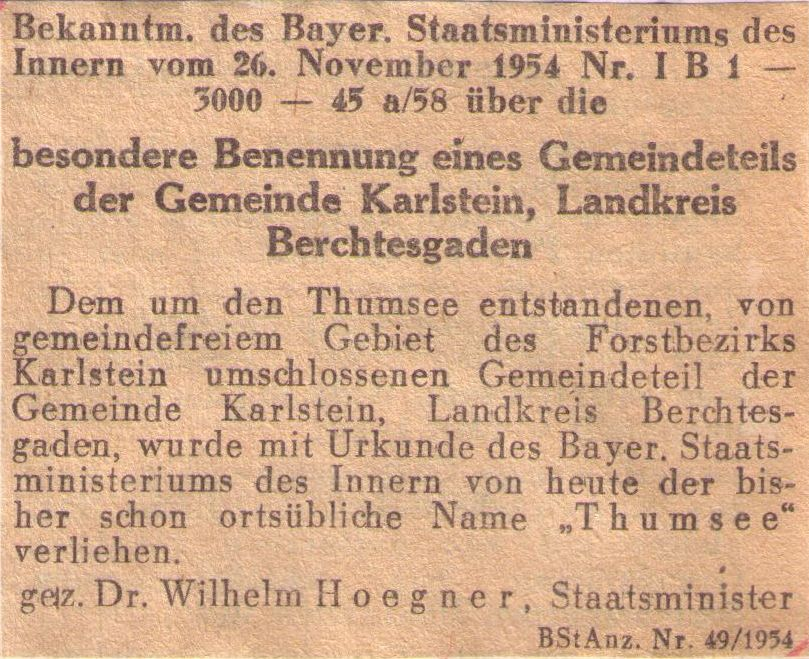 Bavarian Government announcement of new official place name "Thumsee", close to Bad Reichenhall, Upper Bavaria